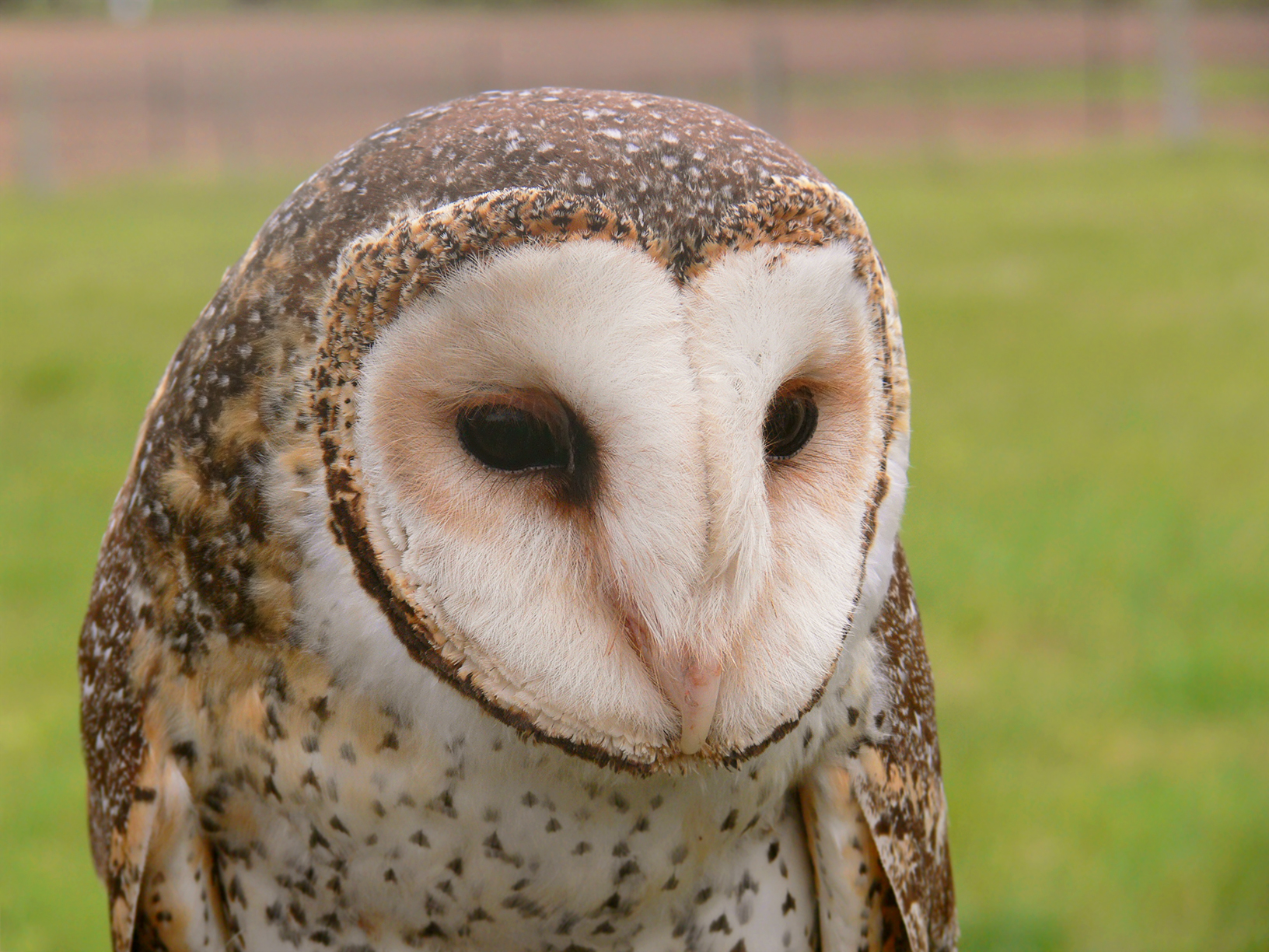 A Masked owl Tyto novaehollandiae, taken at a Traveling Raptor flight display in south-eastern Australia.